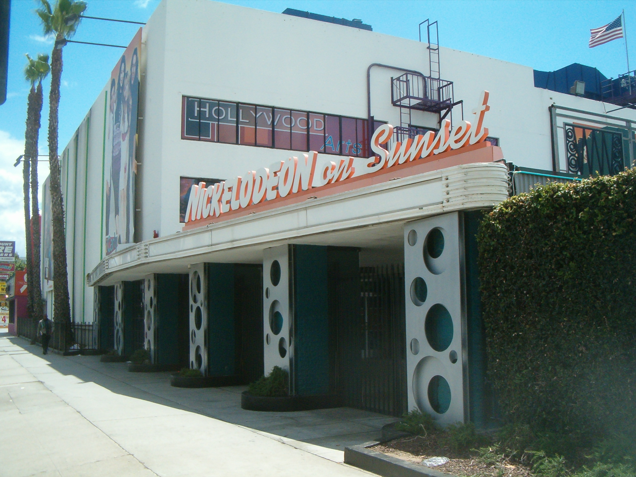 The Nickelodeon Studios on the Sunset Boulevard in Los Angeles, CA. (2011)